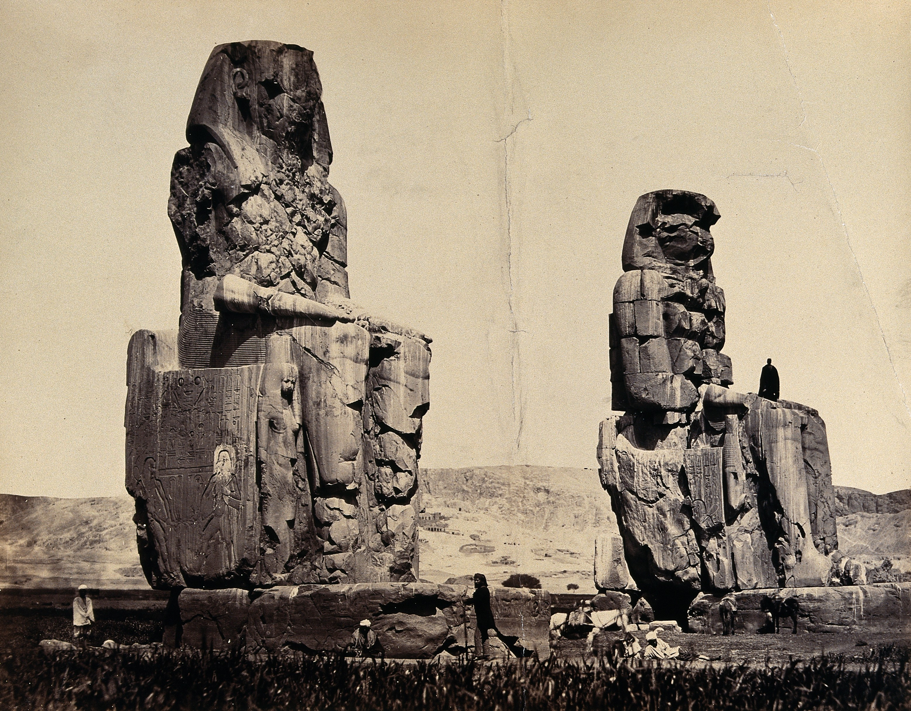 The Statues of the Plain, Thebes, Egypt: a man is standing in the lap of one statue; other men and donkeys at the base. Photograph by Francis Frith, ca. 1858. Iconographic Collections Keywords: Francis. Frith